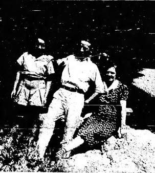 Virginia with her mother and father on a vacation when she was nine years old